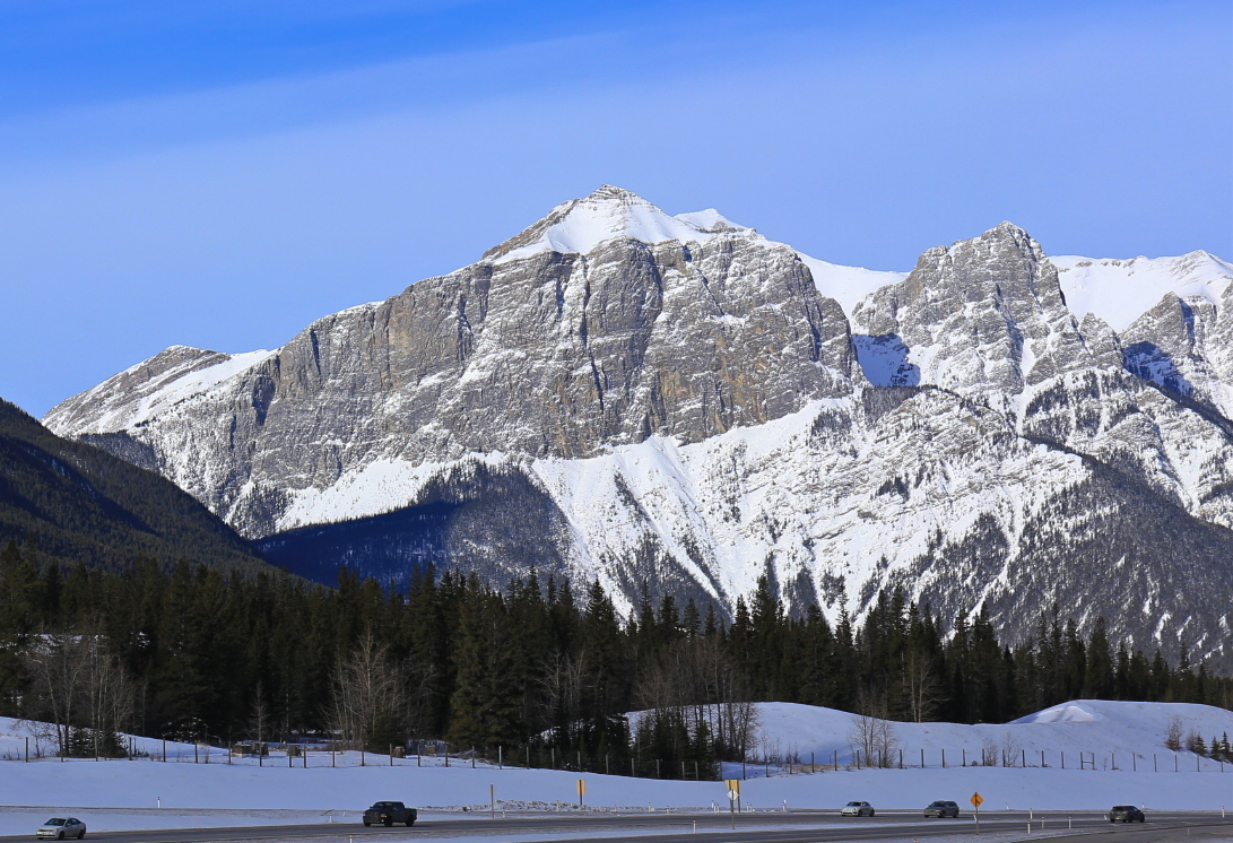 East End Of Rundle seen from westbound Highway 1, Alberta Canada